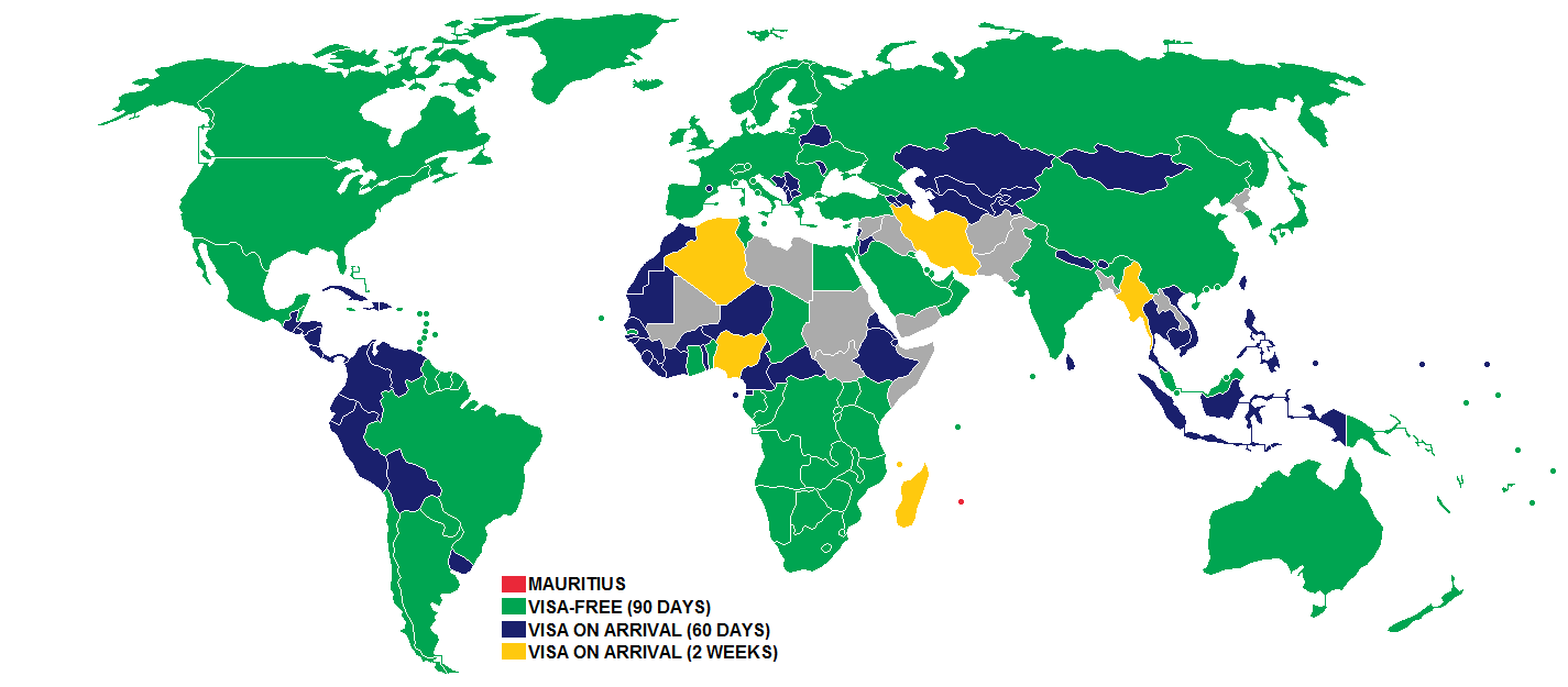 visa-entry condition to Mauritius Mauritius Visa exempt (90 days) Visa on arrival (60 days) Visa on arrival (14 days)